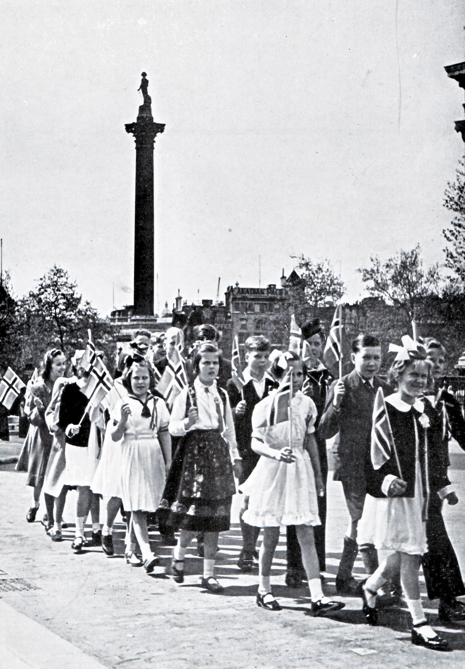 Children celebrating Norway's Constitution Day, 17 May 1942, in Trafalgar Square in London.